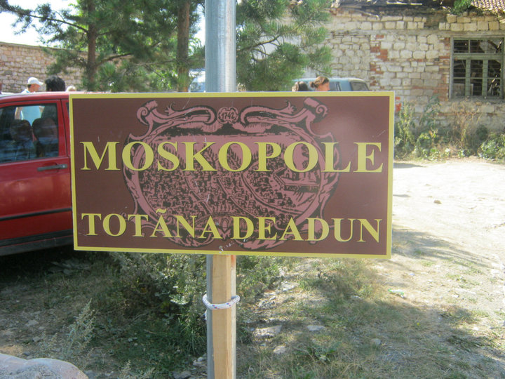 moskopole 2010 macedonians /armans / "aromanians" / "vlachs"